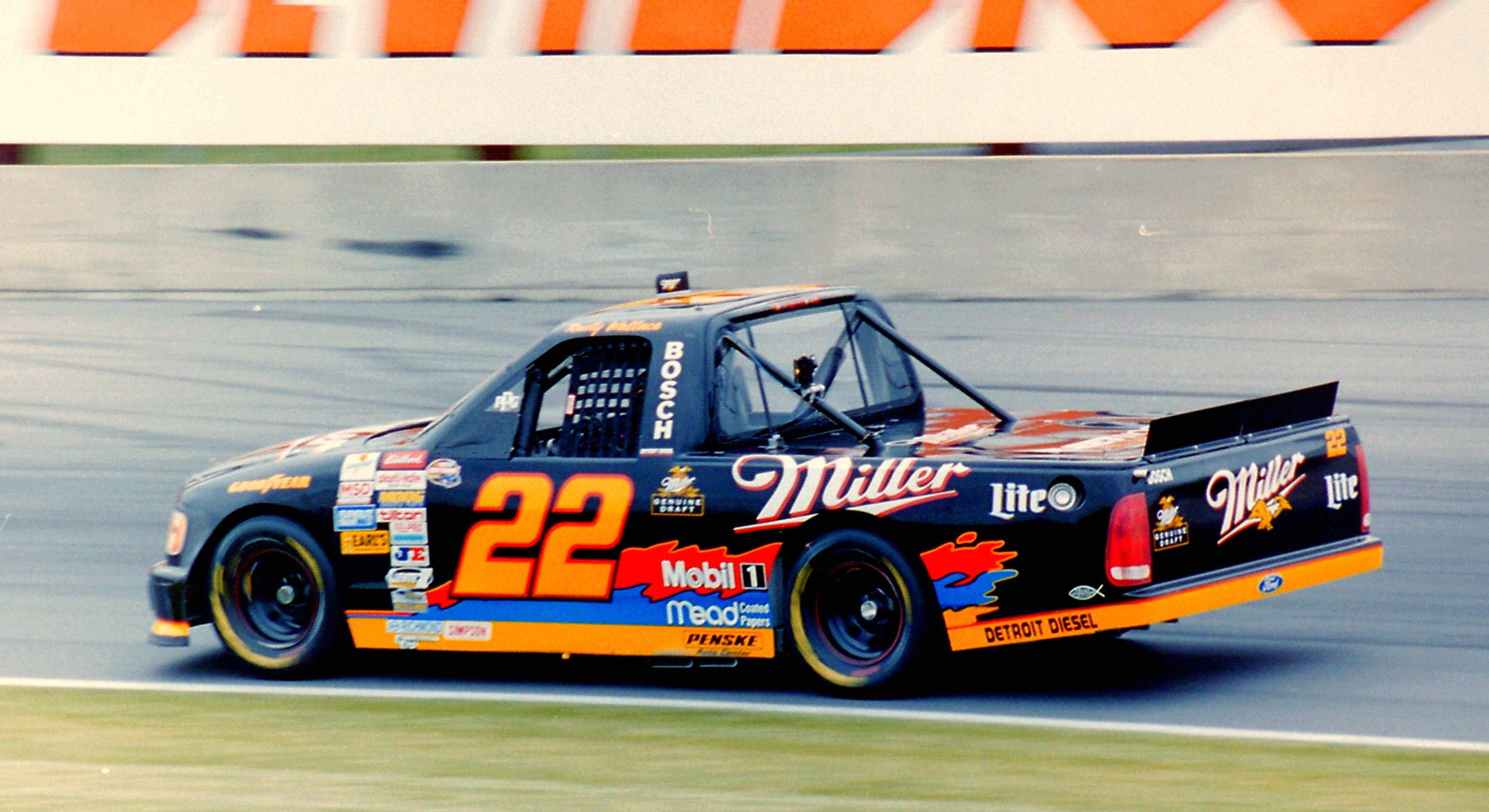 Rusty Wallace drives the No. 22 Miller Lite Ford at Nazareth Speedway in the DeVilbiss Superfinish 200, June 30, 1996.